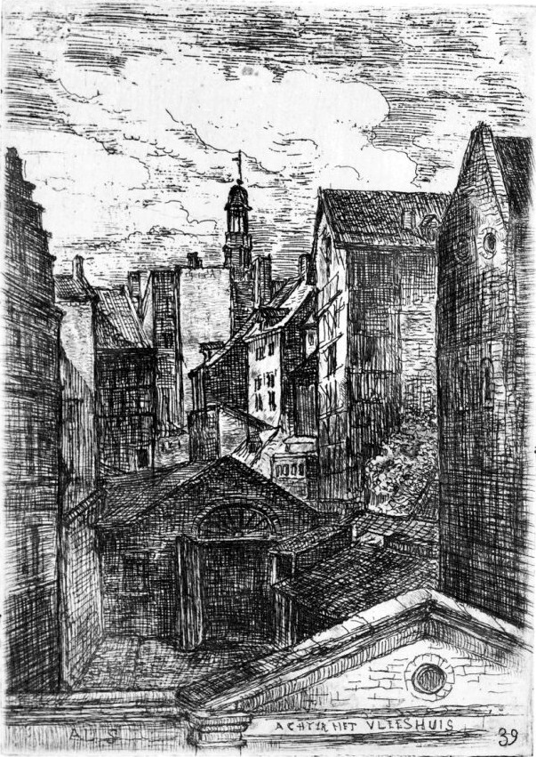 Maastricht, the Netherlands. View towards the North of the former meat hall ('Vleeshuis') between the streets Achter het Vleeshuis and Grote Staat. Drawing by Alexander Schaepkens (19th century).